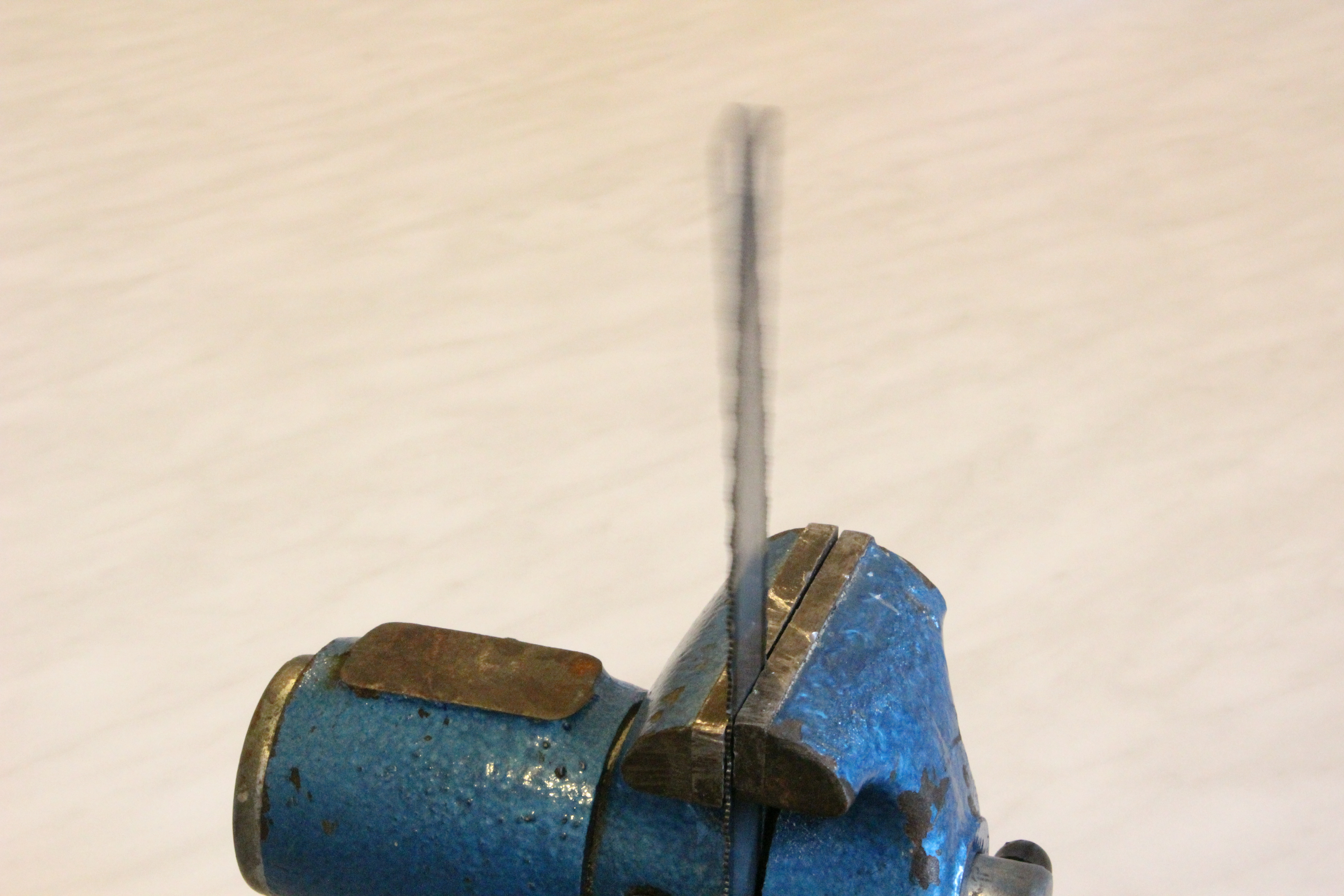 Saw blade caught in a vise, during vibration.